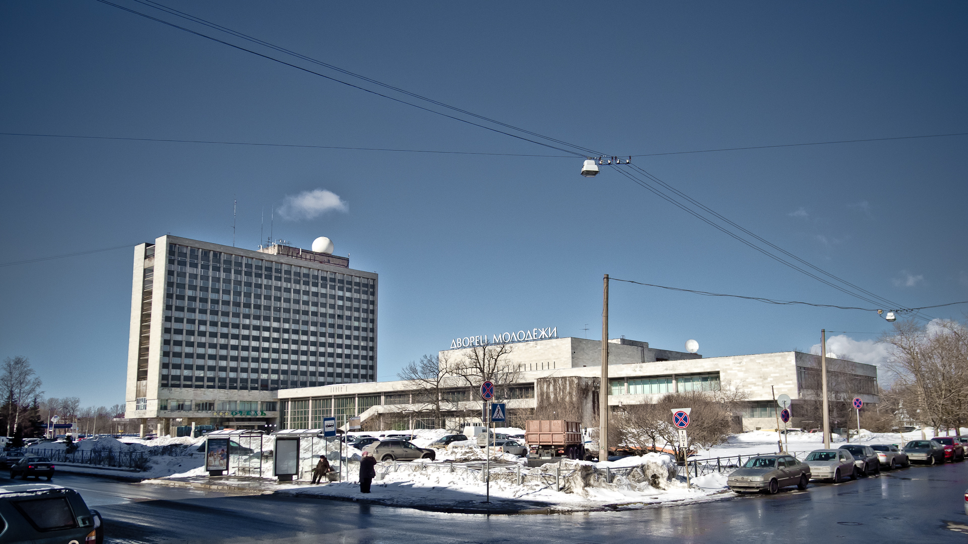 45-47, Professora Popova street, Saint-Petesburg, Russia. "Dvorets Molodioji" (Youth Recreation Сenter).